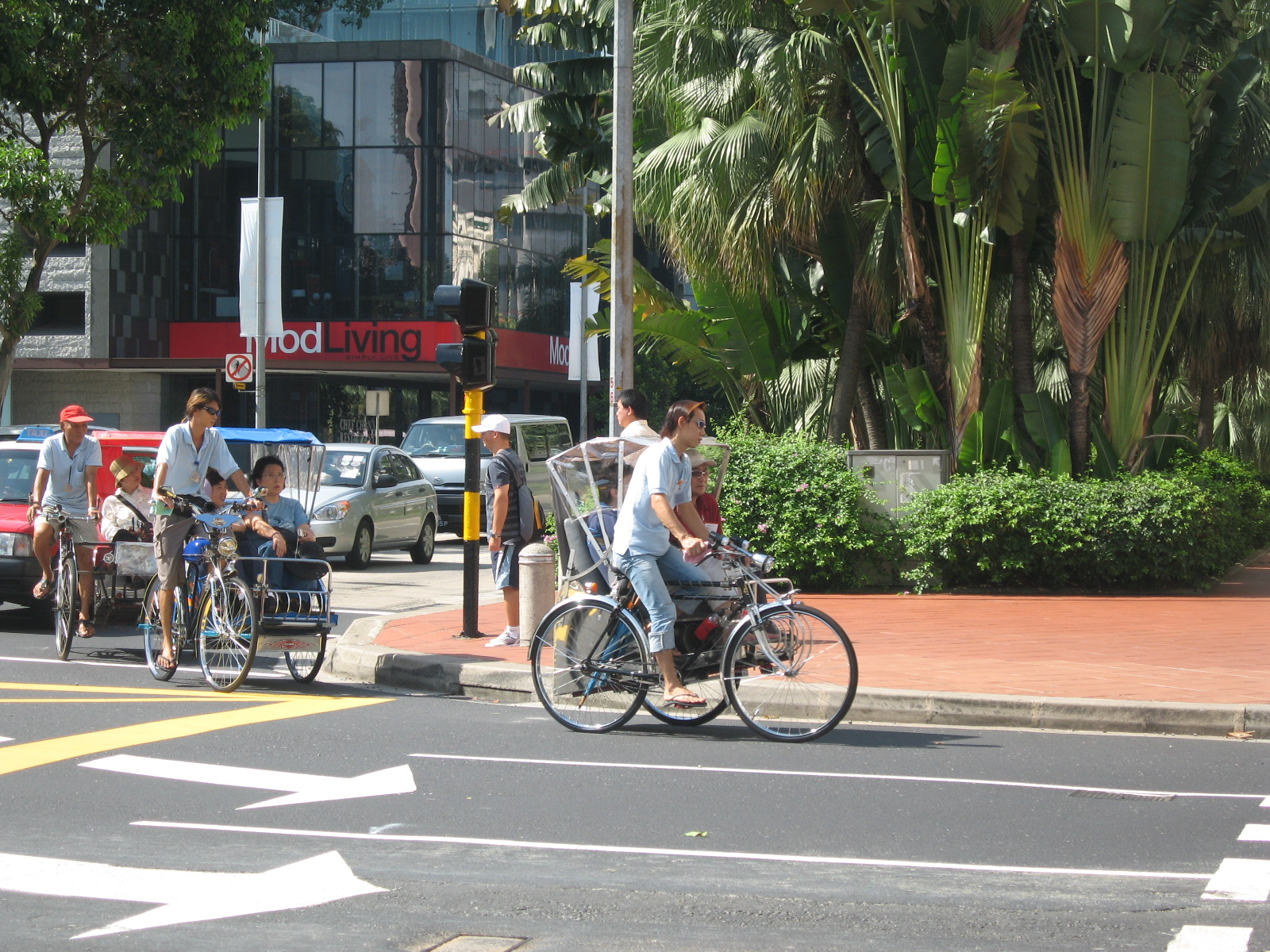 Trishaws are used to ferry tourists around downtown Singapore.